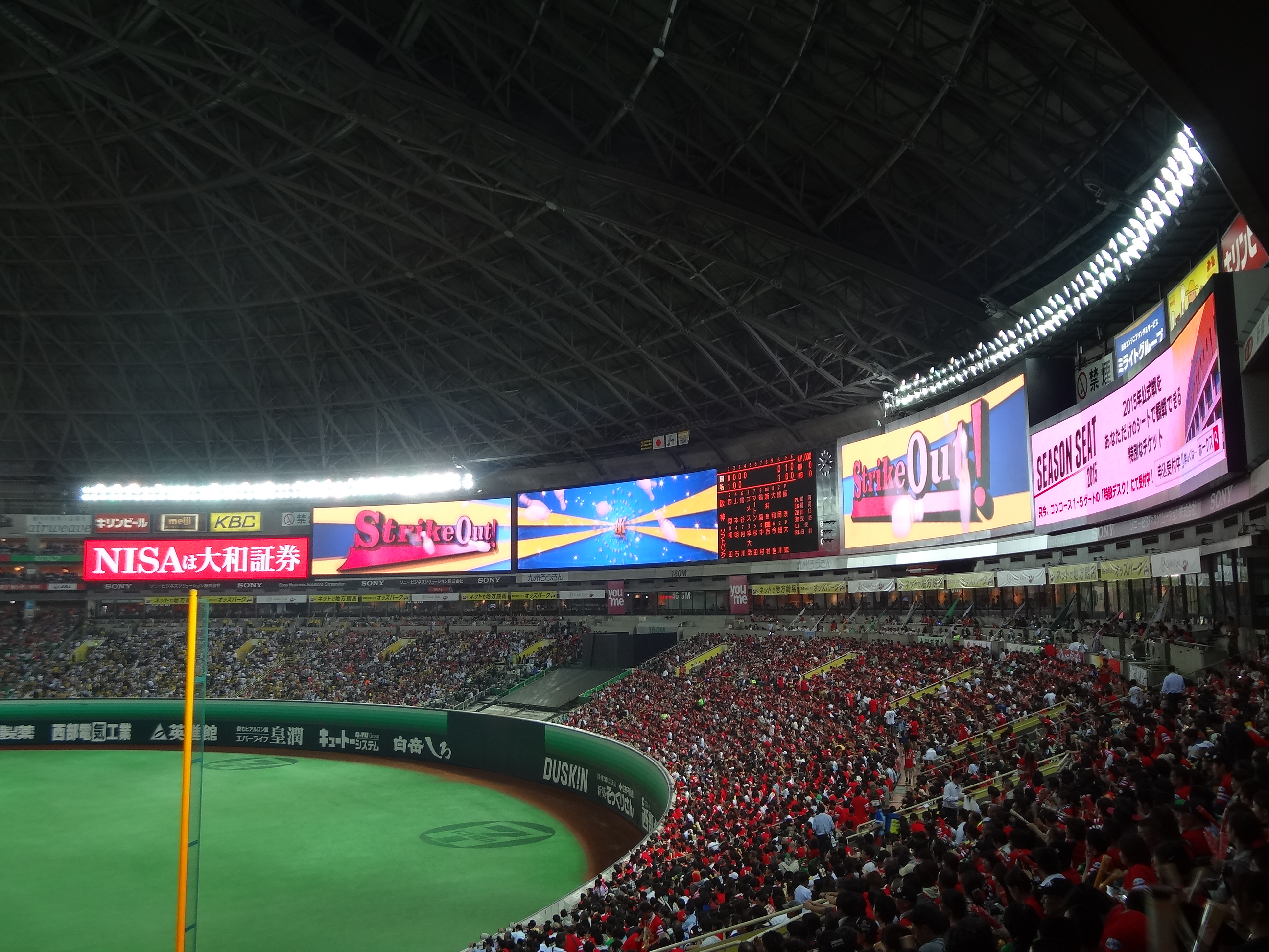 The Score Board in Fukuoka Dome, Japan (October, 2014)